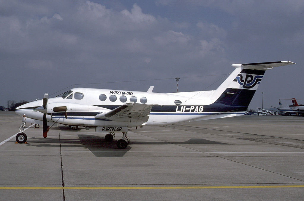 Partnair Beech 200 Super LN-PAG at Euroairport